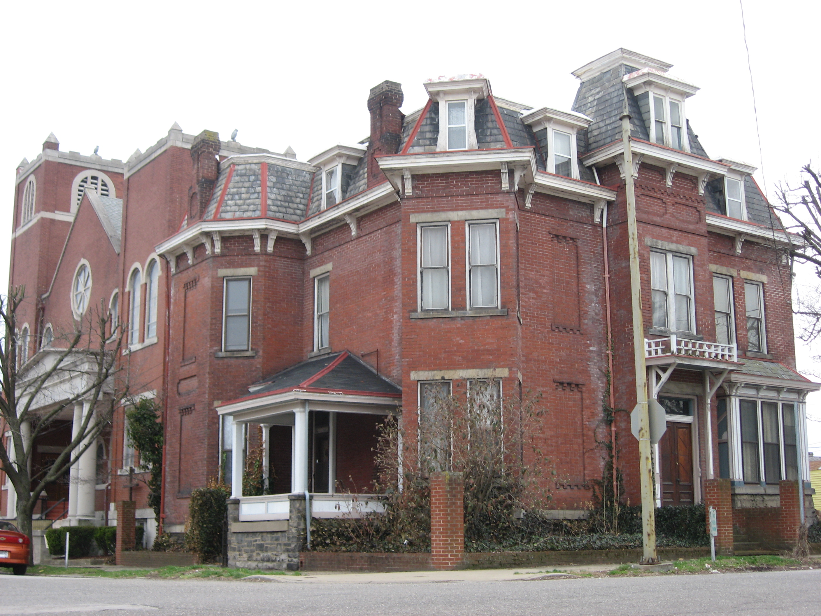 The Ikirt House, located at 200 West Sixth Street in downtown East Liverpool, Ohio, United States. Built in 1888, the house is listed on the National Register of Historic Places.